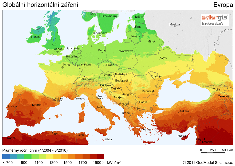 Solar Radiation Map of Europe - Globální Horizontální Zárení v Evrope, SolarGIS 2011